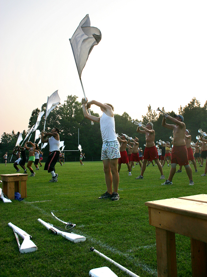 A picture from the Blue Stars 2006 season.